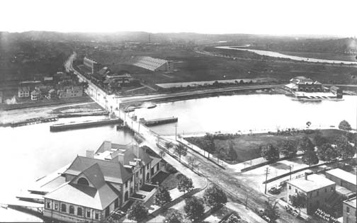 The Great Bridge in Cambridge, Massachusetts in 1907. This bridge stood at the site of the current Anderson Memorial Bridge.